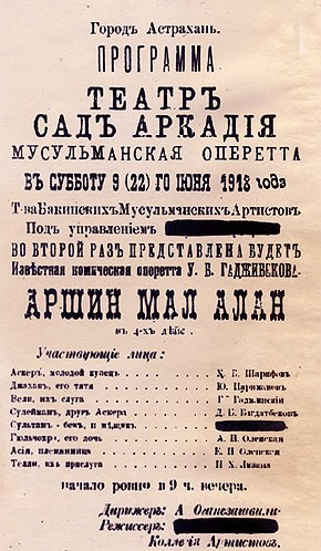 Poster of "Arshin mal alan" (operette by Uzeyir Hajibeyov) staged in Astrakhan in 1918 by Abbas Mirza Sharifzade (his name was removed from the poster)